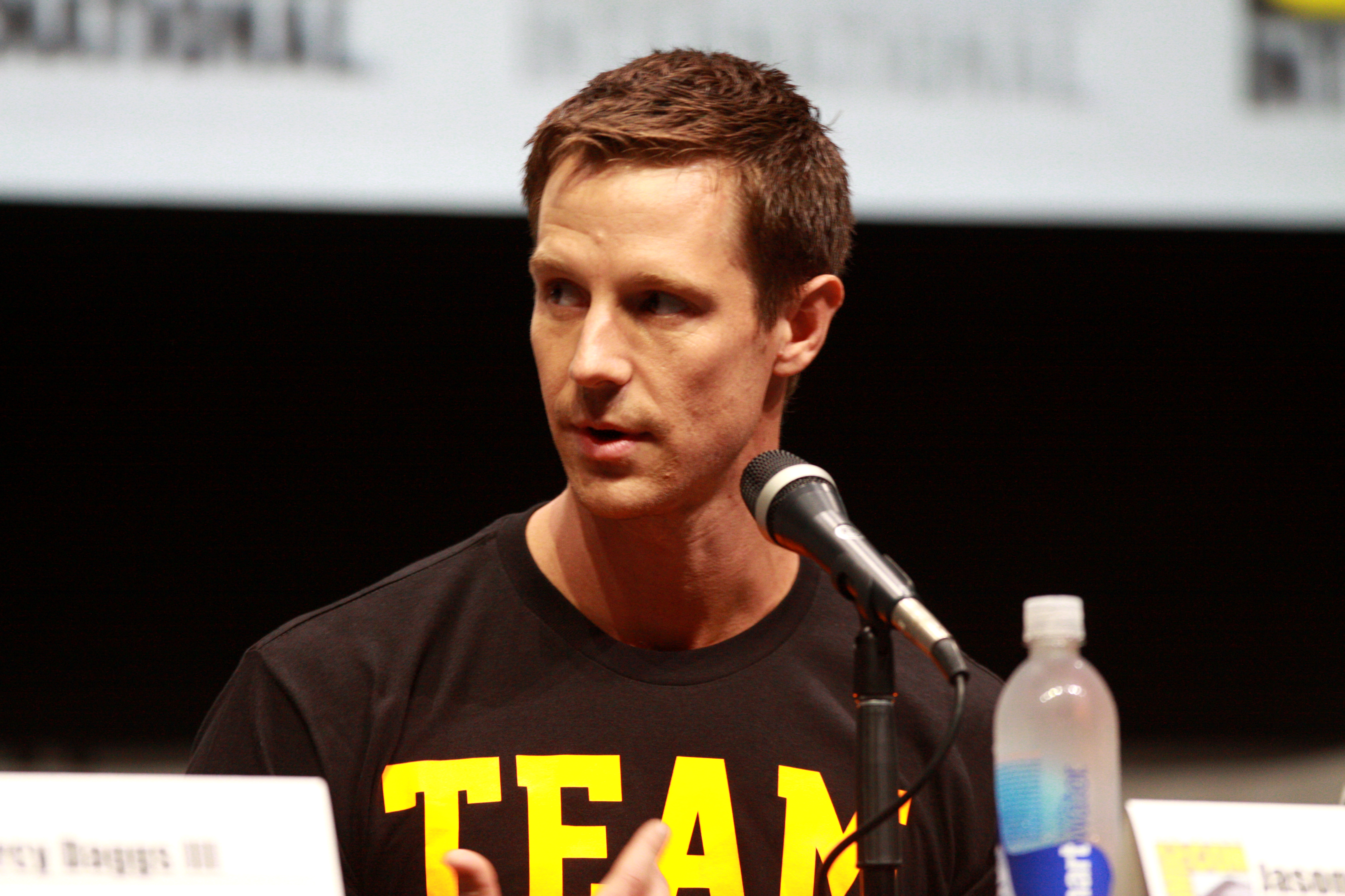 Dohring San Diego Comic-Con International in 2013